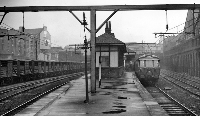 Bellgrove Station. View westward, towards Glasgow Queen St. (Low Level) ahead (also High St. Goods); on left City of Glasgow Union lines leading to St Enoch and Shields Road. Train is on North Clyde (ex-NBR) suburban lines (electrified 11/60).